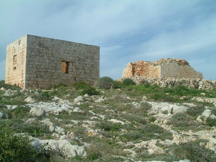 Ghajn Hadid Tower photo taken coming up hill from the cliffs nearby to the East. Photo by Joseph J. Zarb